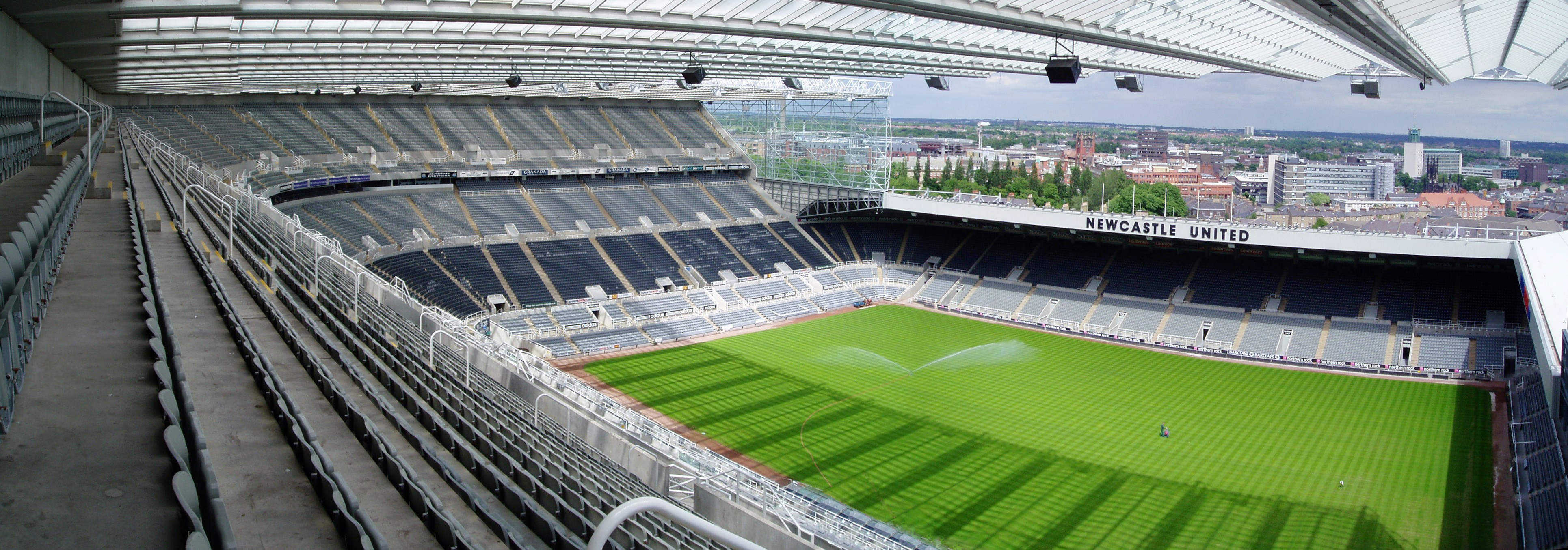 Panoramic photograph of St. James Park in Newcastle